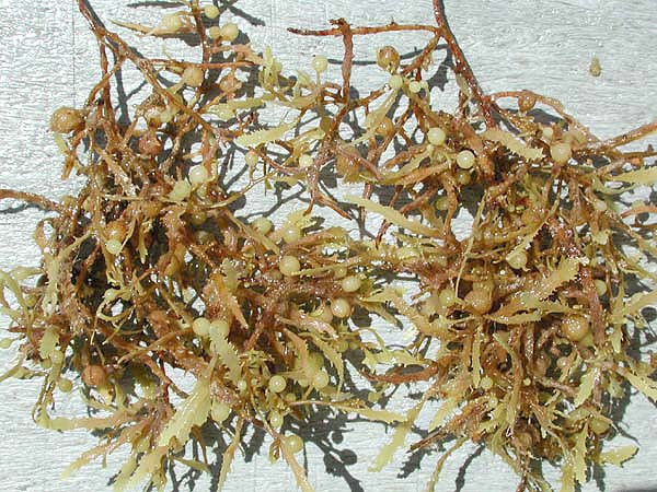 A closeup of a small mass of sargassum weed. The numerous small round spheres are floats filled with carbon dioxide. These provide buoyancy to the algae.